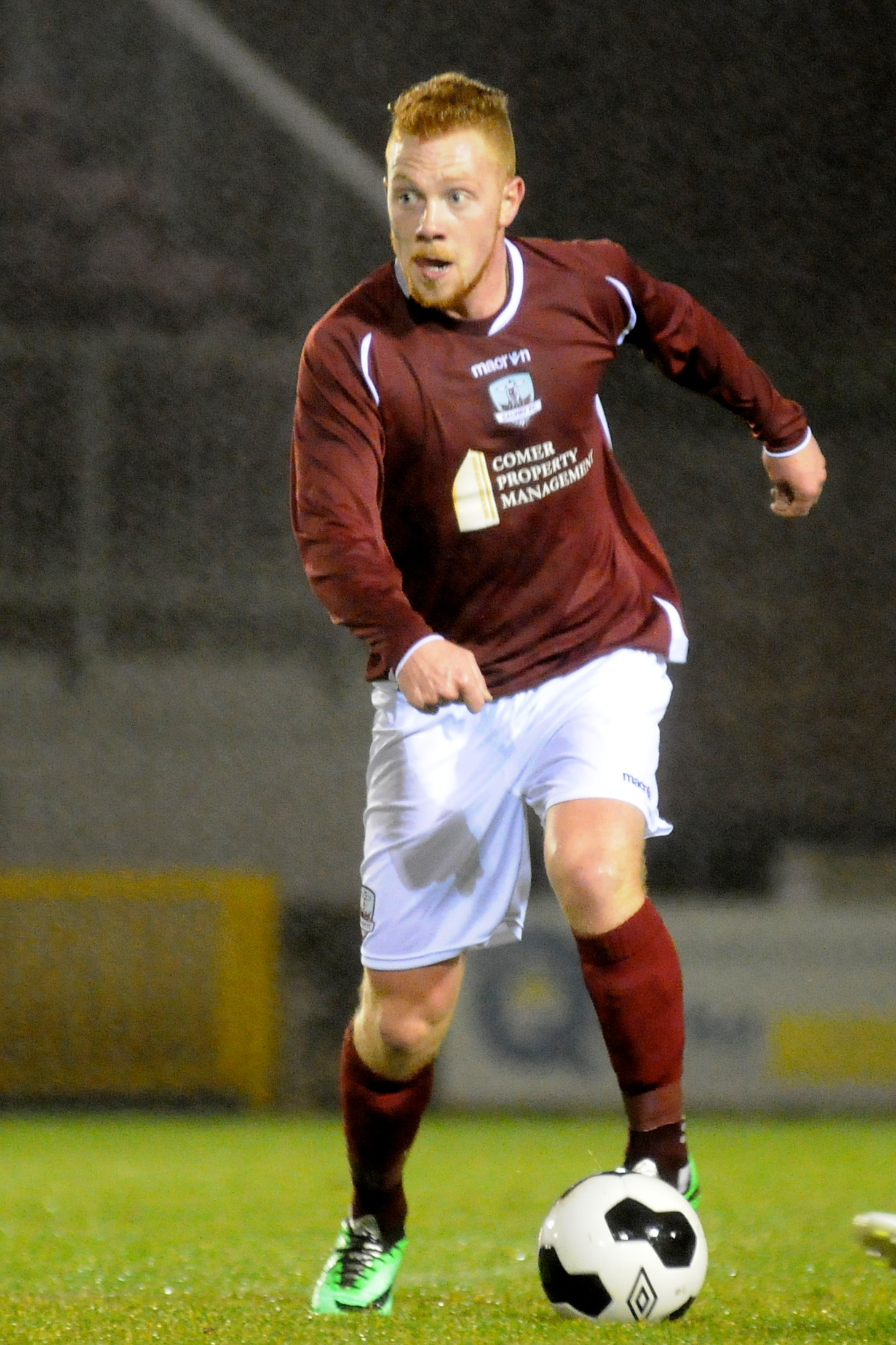 Ryan Connolly in action for Galway F.C. against Athlone Town in a preseason friendly at Eamon Deacy Park on the 22nd February 2014